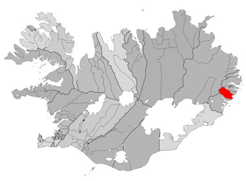 Based on Municipalities of Iceland.png.